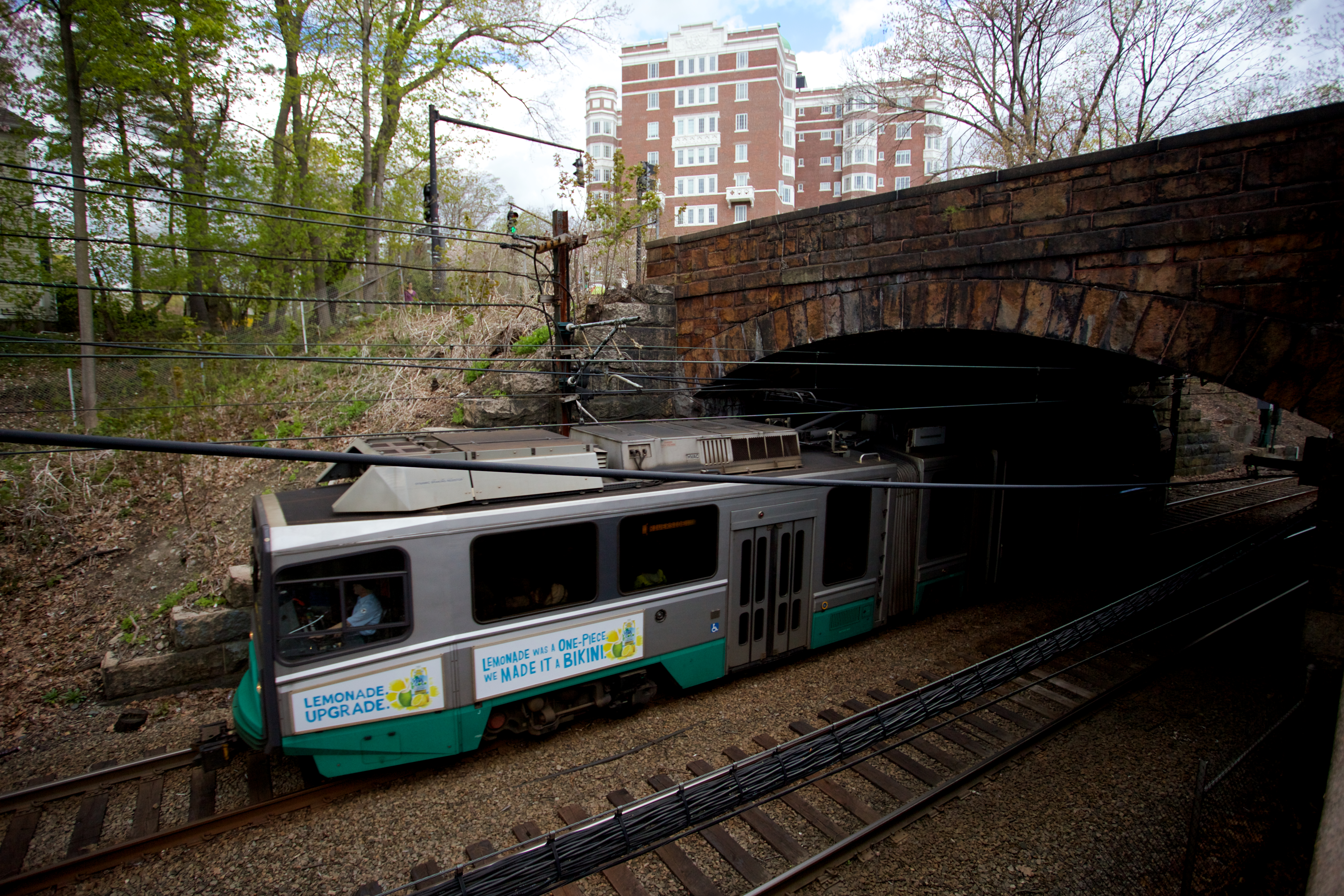 An outbound Type 8 car passes under the Longwood Avenue bridge on the Green Line "D" Branch